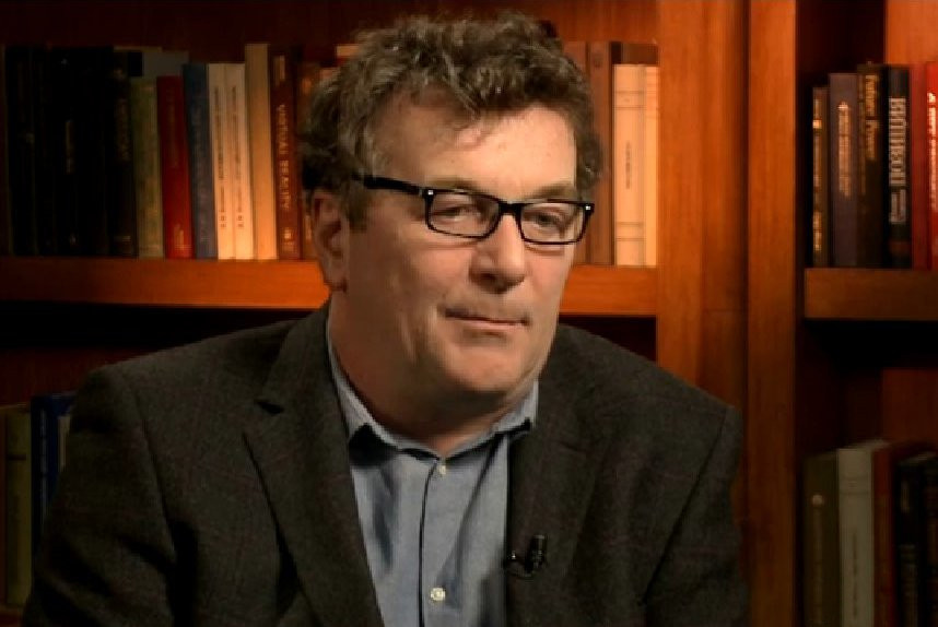 Scren capture from the video shown in the link. Shows Austrian film maker Bert Ehgartner.